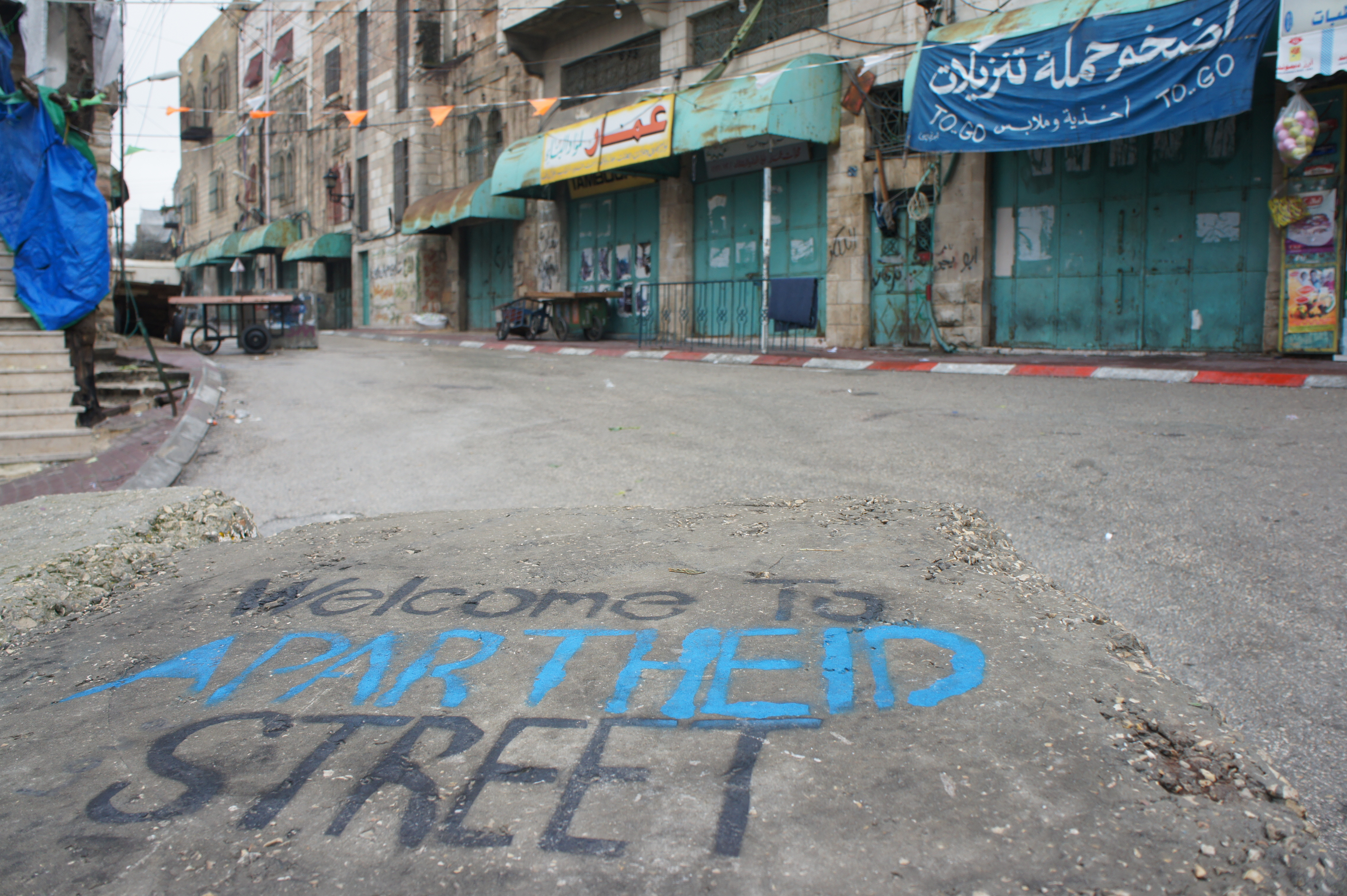 Hebron, welcome to Apartheit street